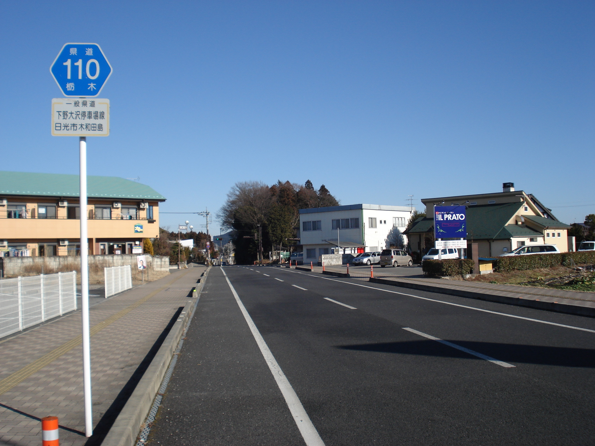 The Tochigi Prefectural Road Route 110 in Kiwadashima, Nikko City